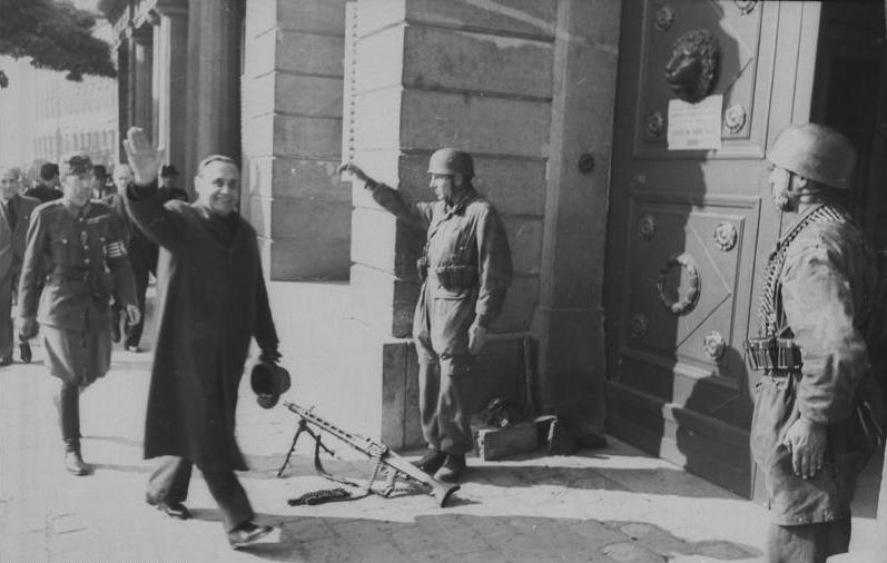 Information added by Wikimedia users.